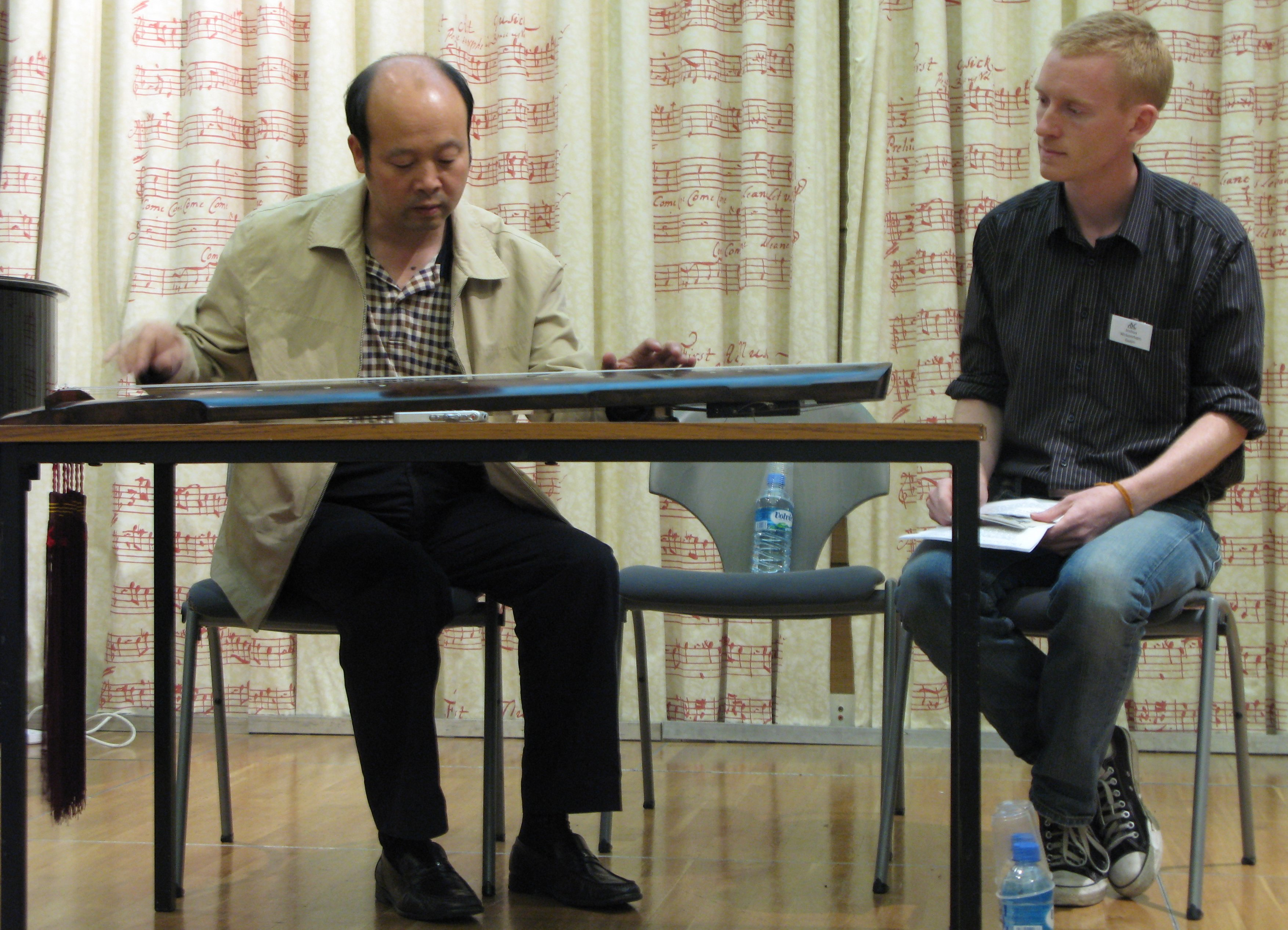 Master Zeng Chengwei plays qin (Joshua Wickerham is the translator on the right)